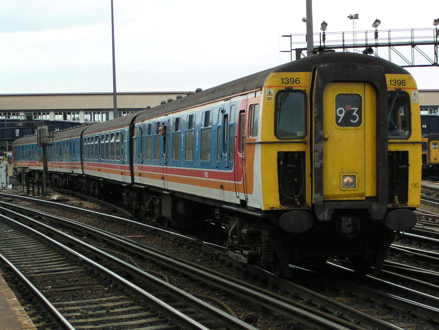 BR Class 421/8, no. 1396, at Clapham Junction on 19th July 2003. This unit is one of eight "Greyhound" units converted from redundant 4Big units for use by South West Trains. The buffet coach was replaced with a spare 4Cep trailer vehicle, which is identifiable by its different profile as the second vehicle in the unit.